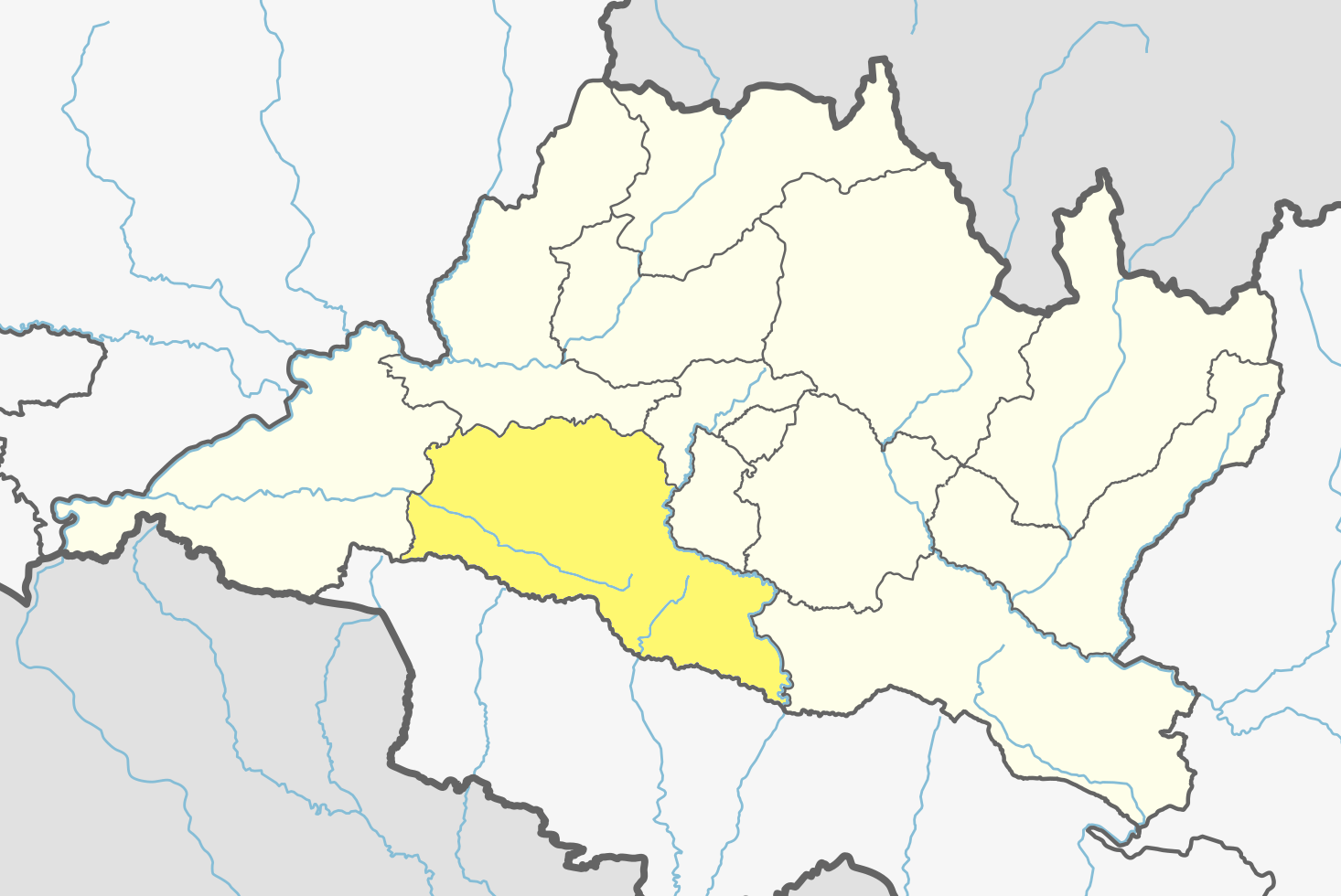 A district of Bagmati Pradesh